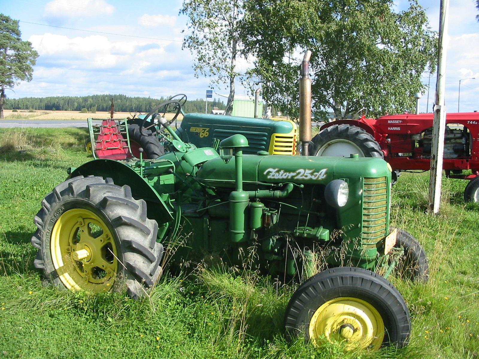 Old Zetor Z-25A tractor from the collections of Uitonkulman siivapyörämiehet ry in Tarvasjoki, Finland.